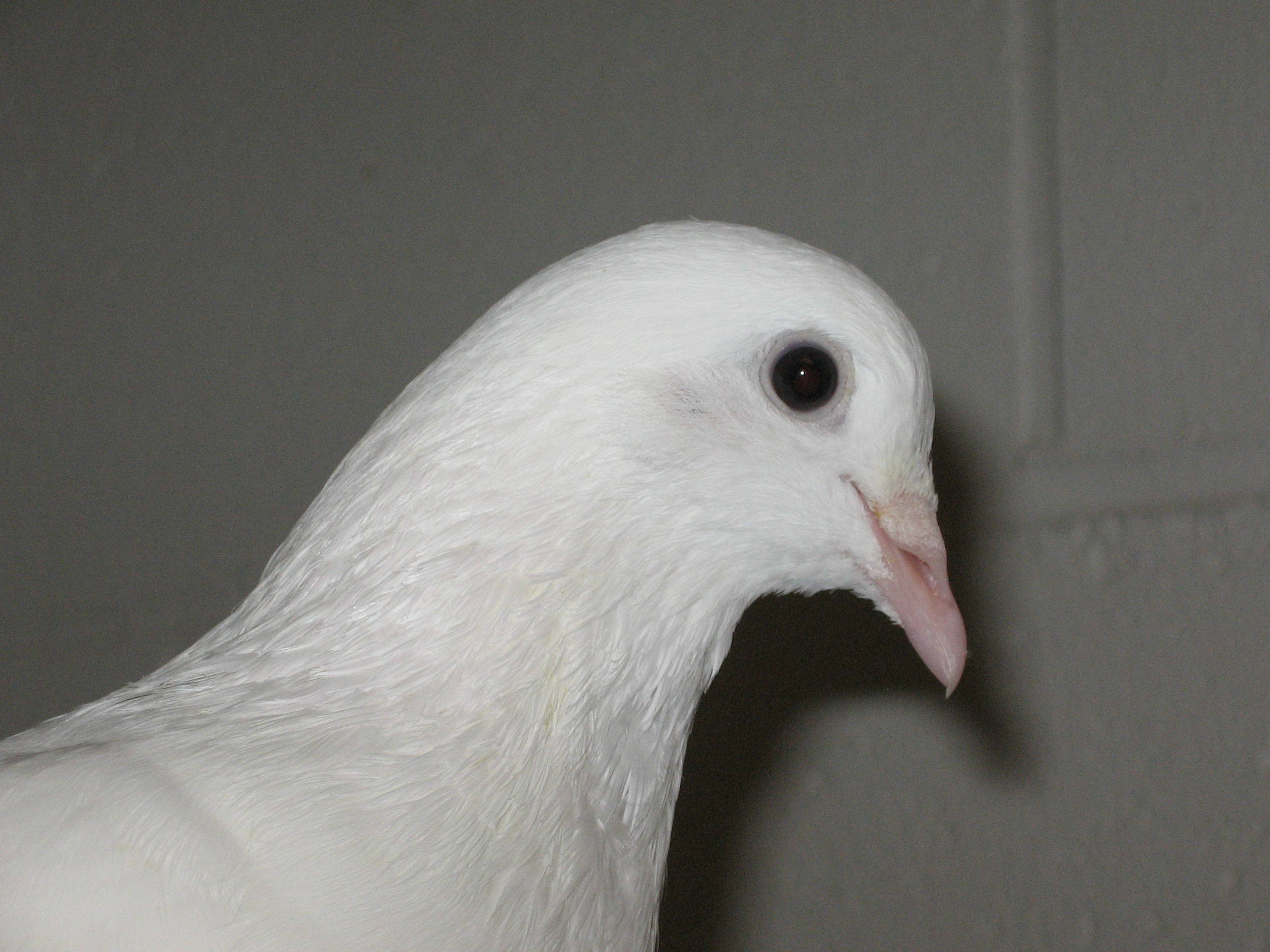 Woo's re-occurring symbol of white doves were first used in The Killer.